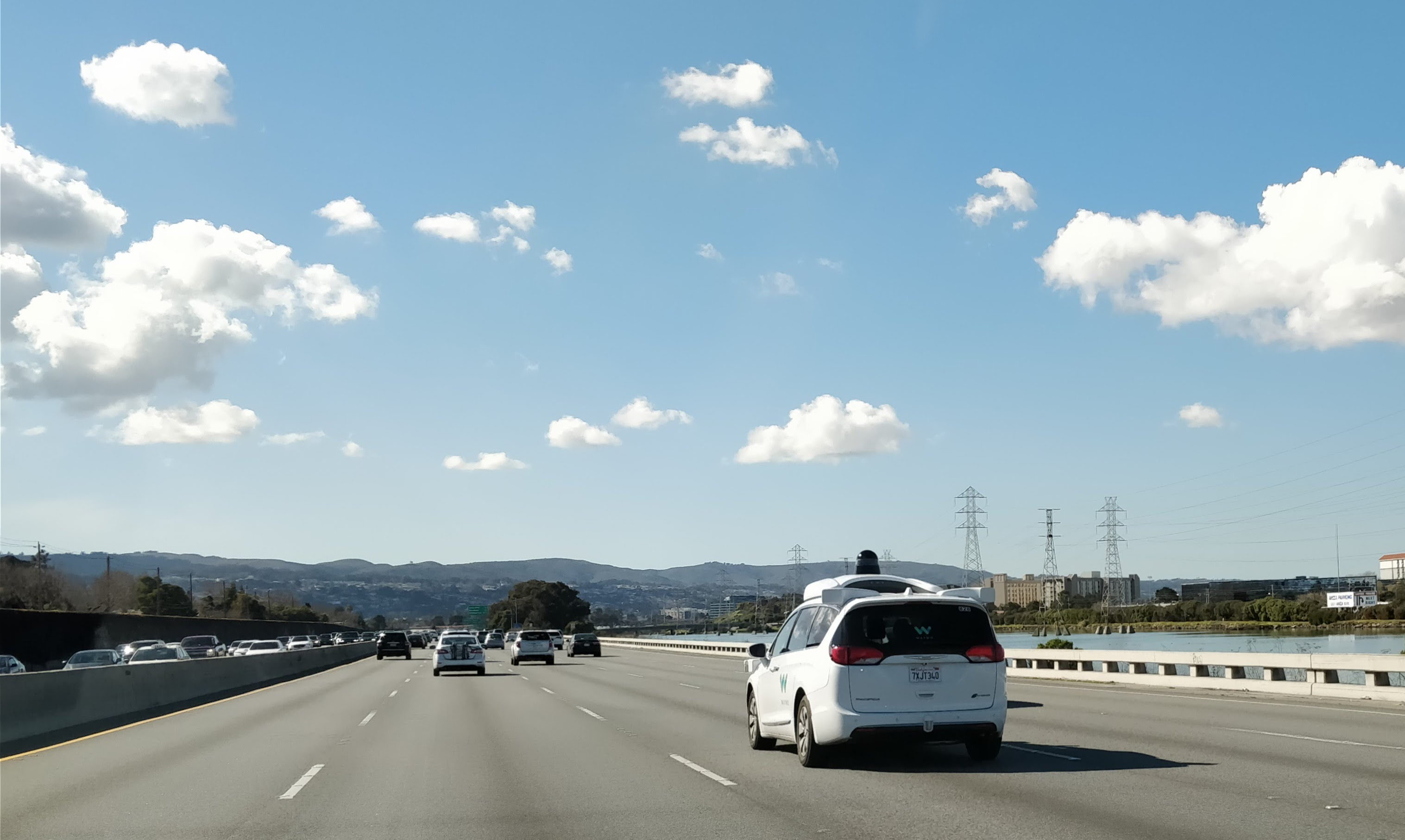 Waymo driverless car in San Francisco. Feel free to use with modification, if you're publishing online please consider attributing credit by posting with a backlink to